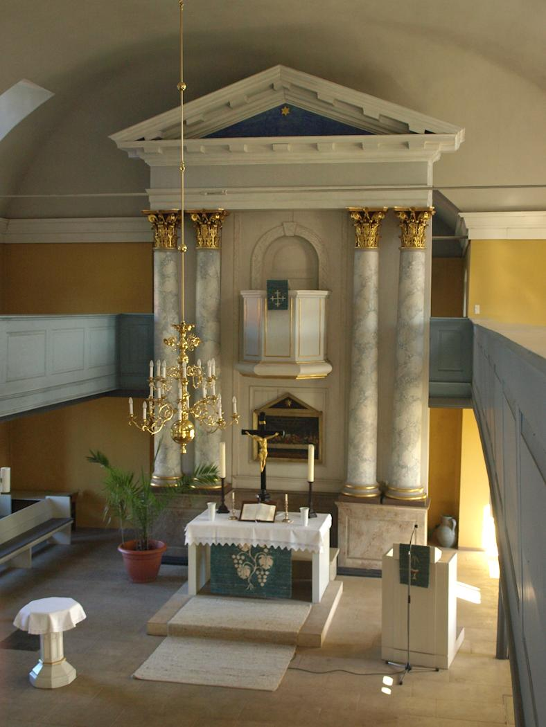 Intschede (Lower Saxony, Germany), Pulpit altar of the church, photo 2011